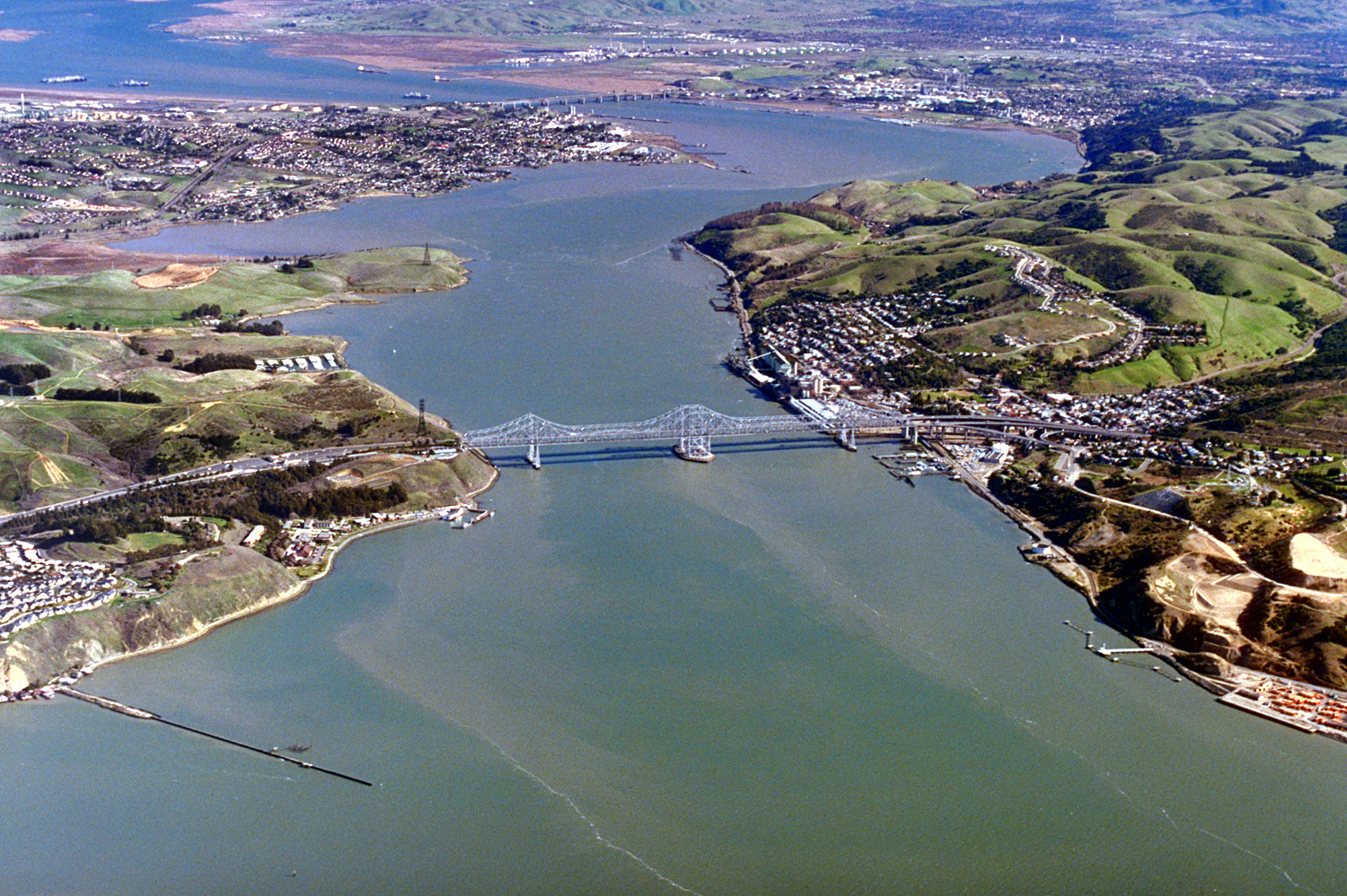 Aerial view of Carquinez Strait, which is the outflow of the Sacramento River into San Pablo Bay between Solano and Contra Costa Counties, California, USA. In the photograph, Solano County is on the left of the strait and Contra Costa County is on the right. The Carquinez Bridge, carrying Interstate 80, is visible in the foreground. The Benicia-Martinez Bridge is visible in the far distance. The communities of Crocket, Port Costa, and Martinez lie on the right side in Contra Costa County. The city of Vallejo lies off to the left, not visible in the picture. Benicia, California, is visible at top left. Through Carquinez Strait and Suisun Bay, the river is navigable by deep-water vessels. Coordinates: 38°3′43.25″N 122°13′34.18″W / 38.0620139°N 122.2261611°W